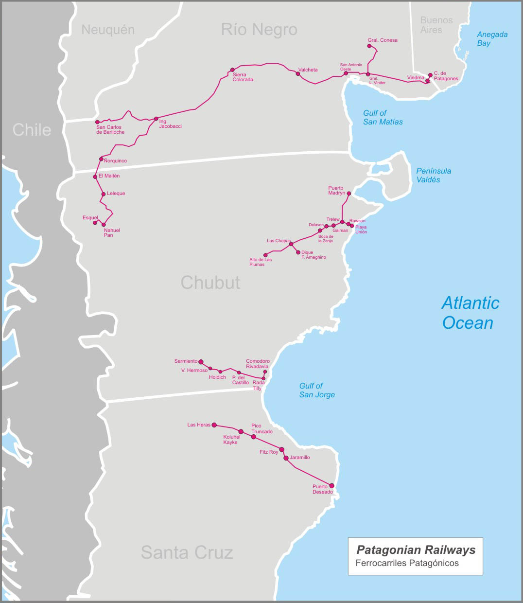 Patagonian Railways network map, which includes all the rail lines built by the Argentine Government. They are currently part of Roca Railway.